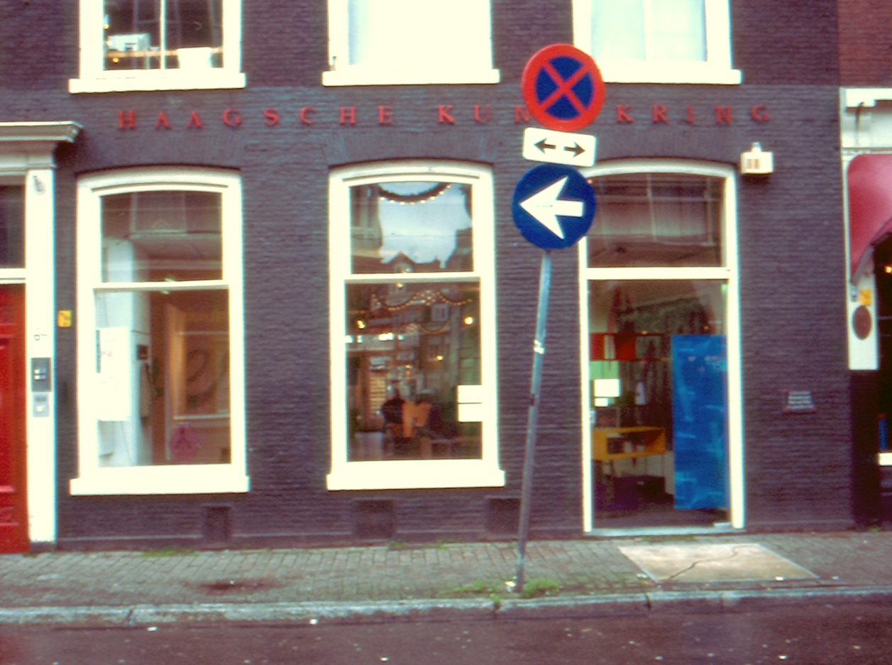 Facade Haagse Kunstkring, Den Haag